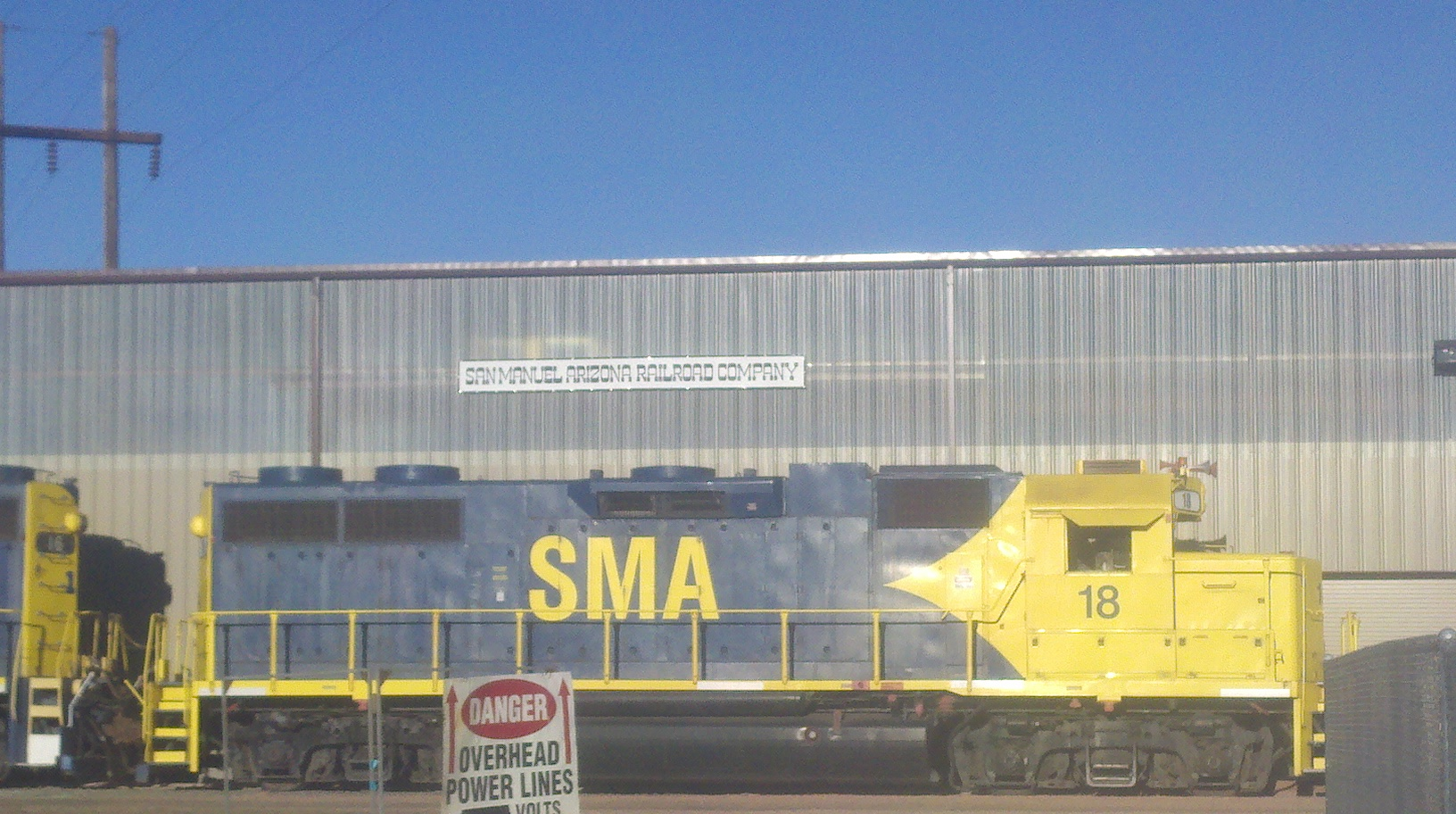 Image of two SMA EMD 38-2 units heading south with empty cars